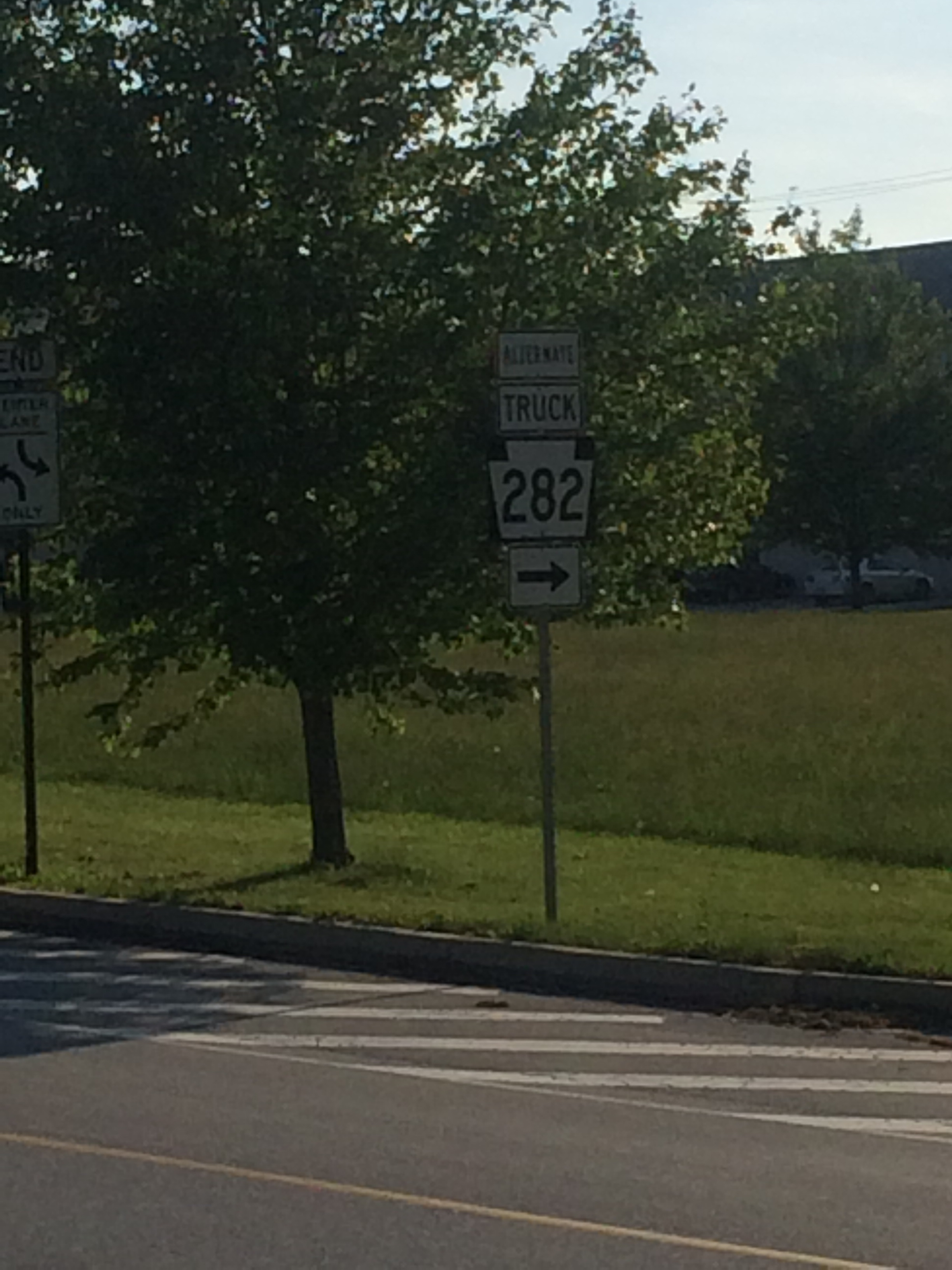 From my own iPhone 5s. My own work